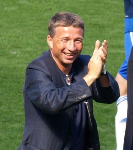 Romanian football (soccer) player Dan Petrescu